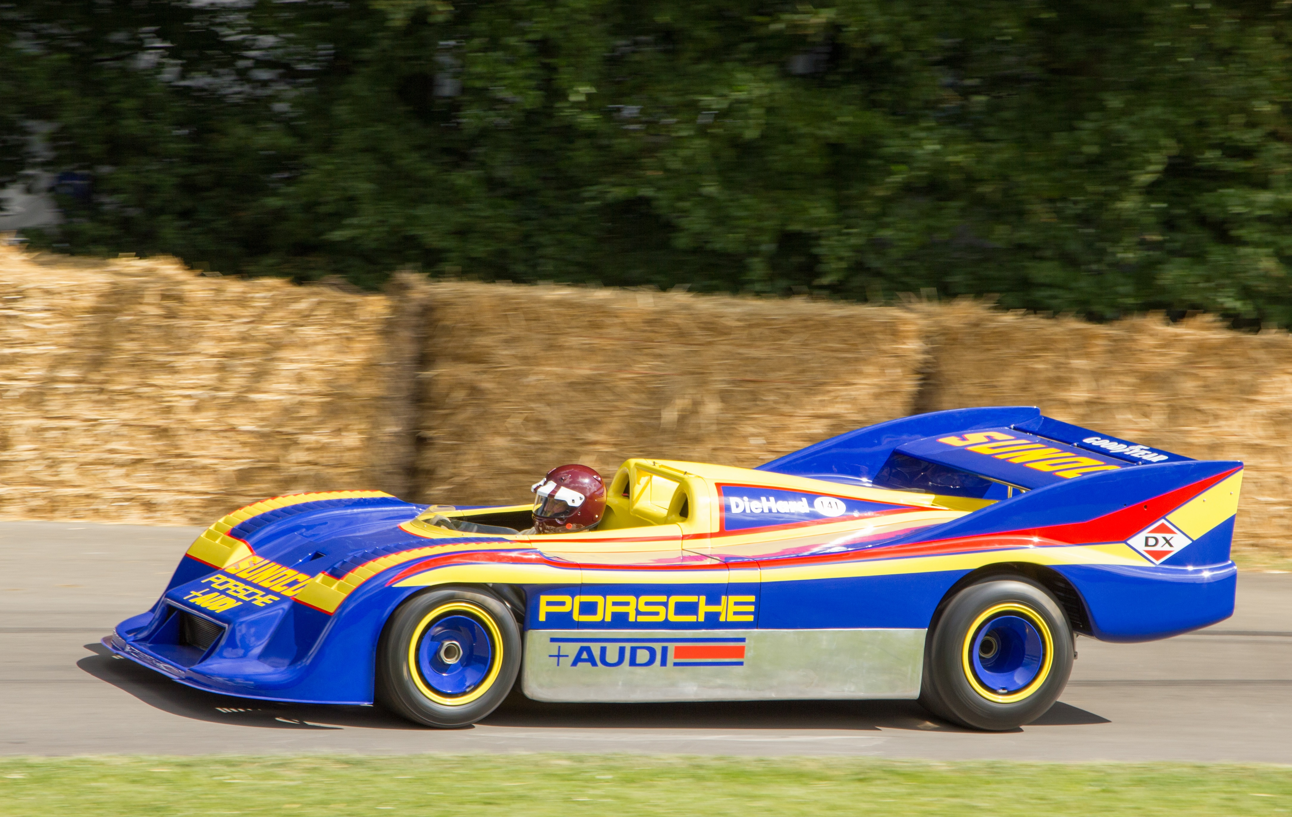 The Porsche 917/30 at the 2014 Goodwood Festival of Speed.